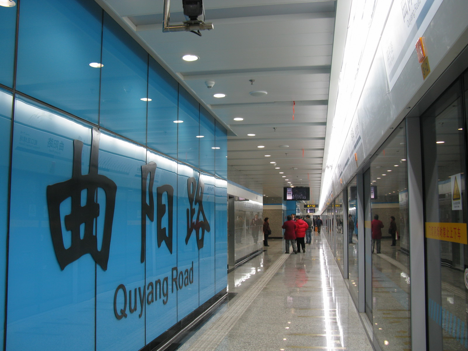 Line 8 Platform of Quyang Road Station